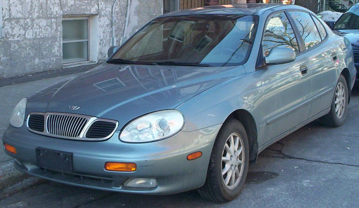 1999-2002 Daewoo Leganza photographed in Montreal, Quebec, Canada.